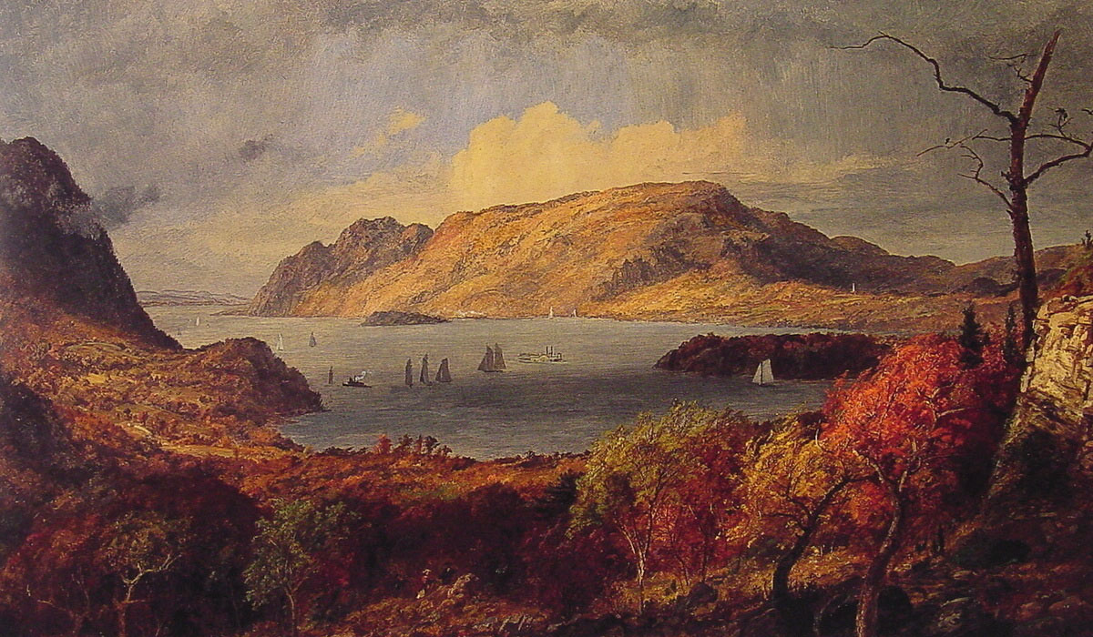 Gates of the Hudson